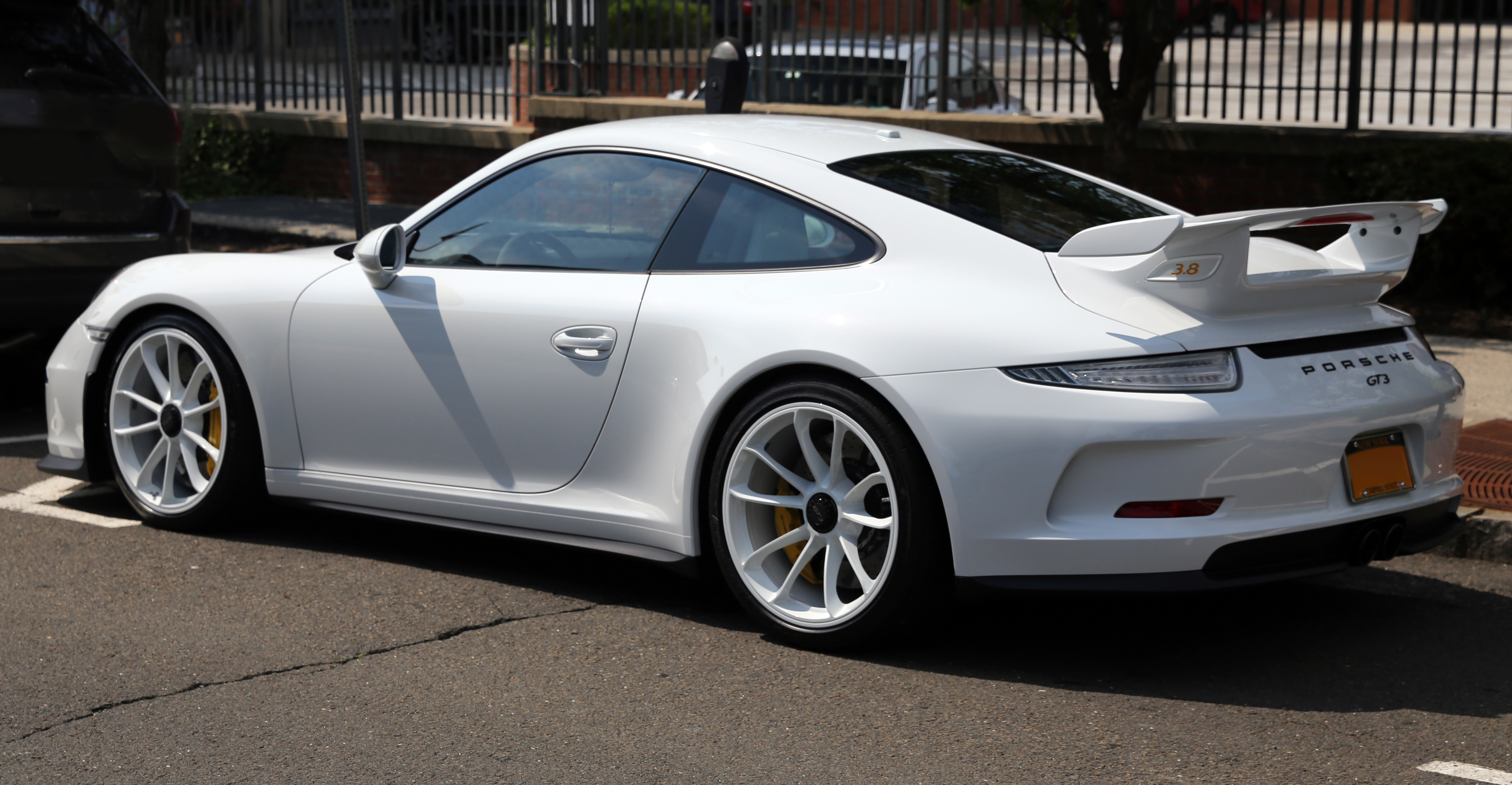 A 2015 Porsche 911 GT3 (991, 3.8-litre and a 7-speed PDK transmission). This example also has ceramic brakes and an enlarged fuel tank.